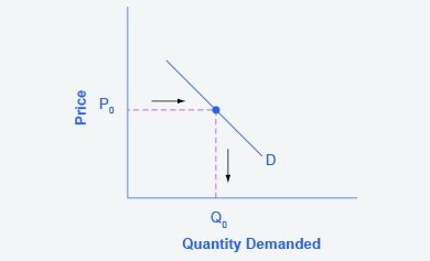 The demand curve can be used to identify how much consumers would buy at any given price.